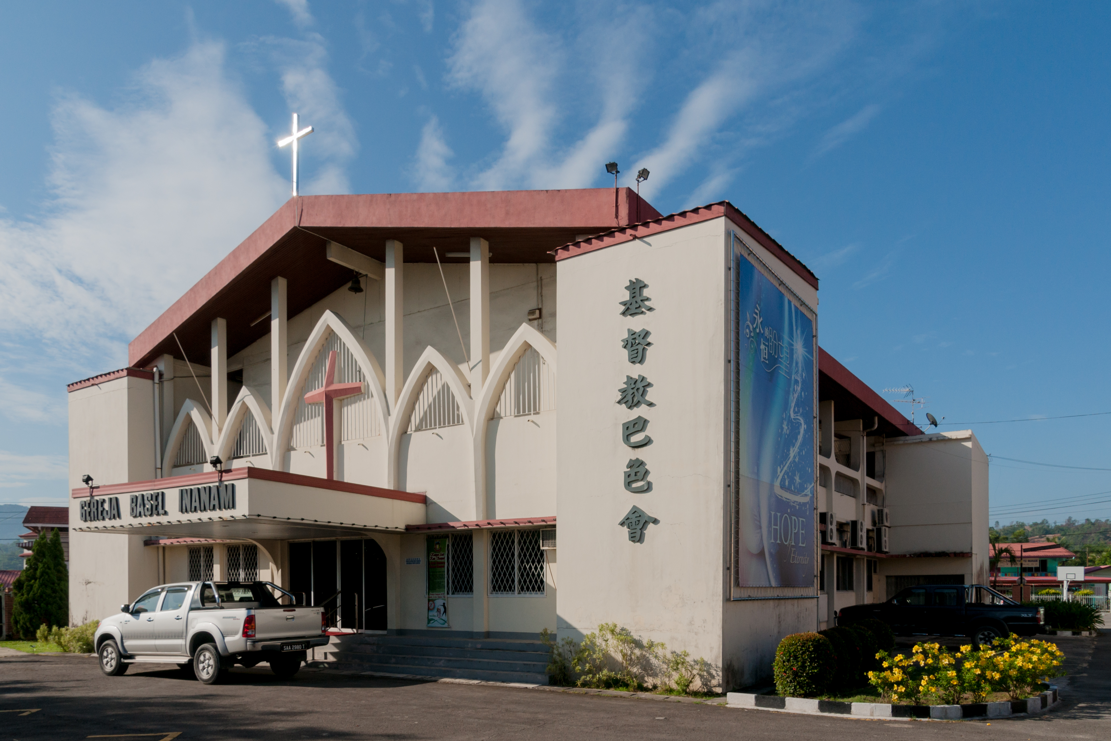 Inanam, Sabah: Gereja Basel - Basel Church Inanam